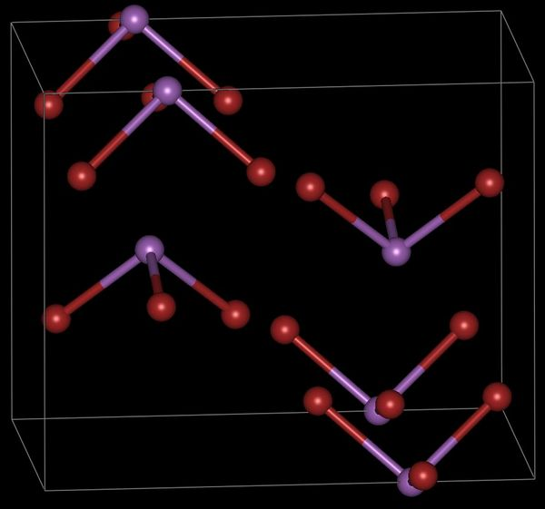 beta-SbBr3 structure. Red atoms are bromine. Journal = JOURNAL OF THE CHEMICAL SOCIETY, Year = 1962, Page = 2218–2222, Title = The Crystal and Molecular Structure of Antimony Tribromide: b-Antimony Tribromide, Authors = Cushen D.W., Hulme R.